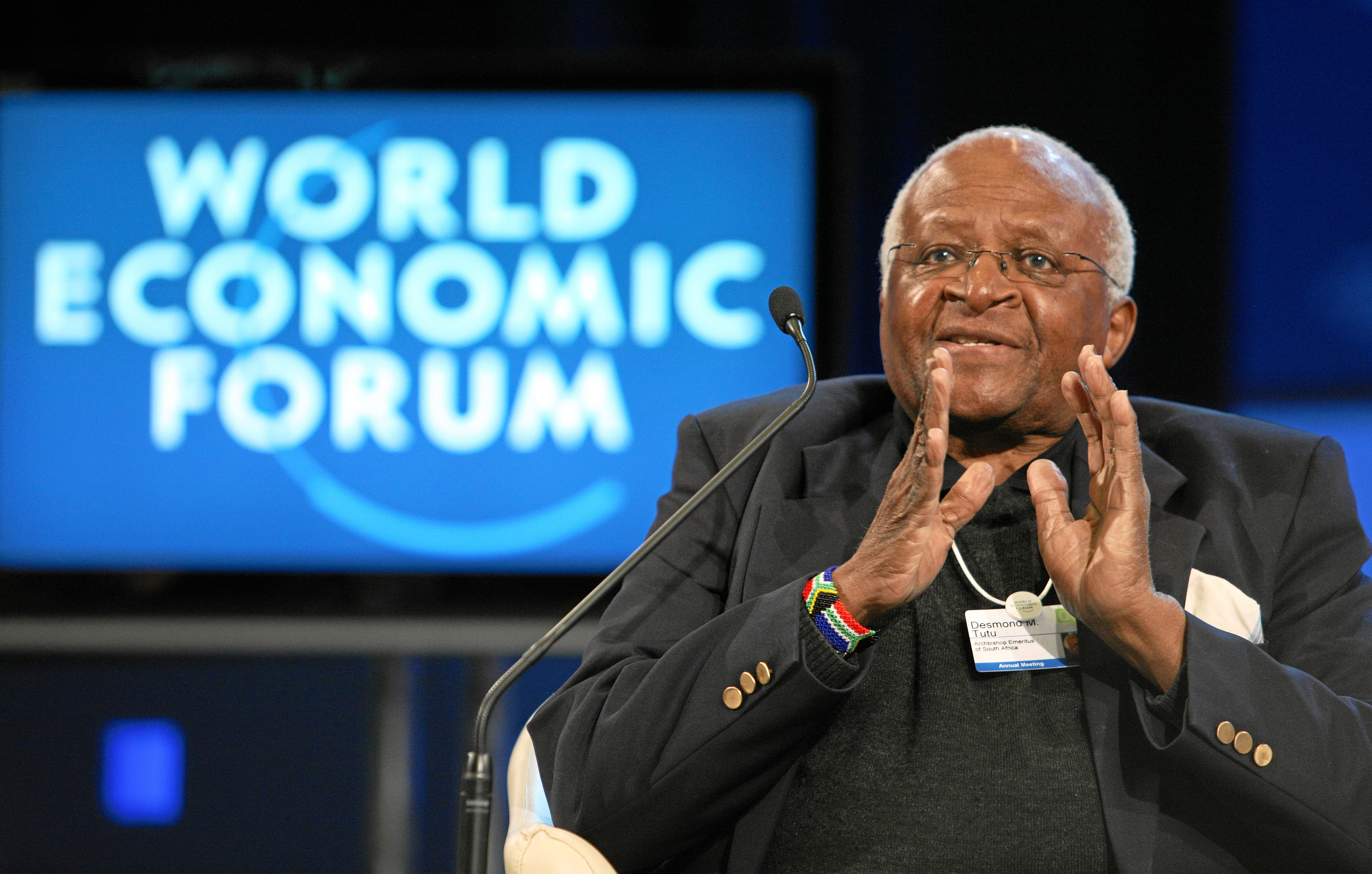 Desmond M. Tutu, Archbishop Emeritus of South Africa gestures during the session 'Believing in the Dignity of All' at the Annual Meeting 2009 of the World Economic Forum in Davos, Switzerland, February 1, 2009.